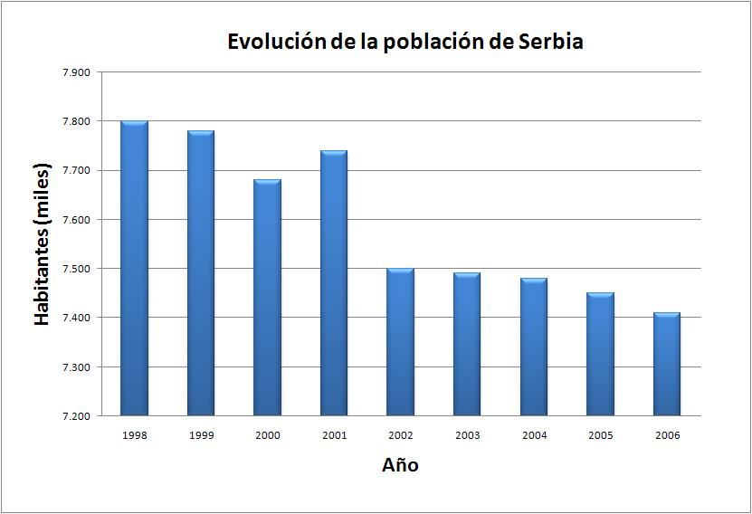 Demography of the Republic of Serbia (1998-2006)